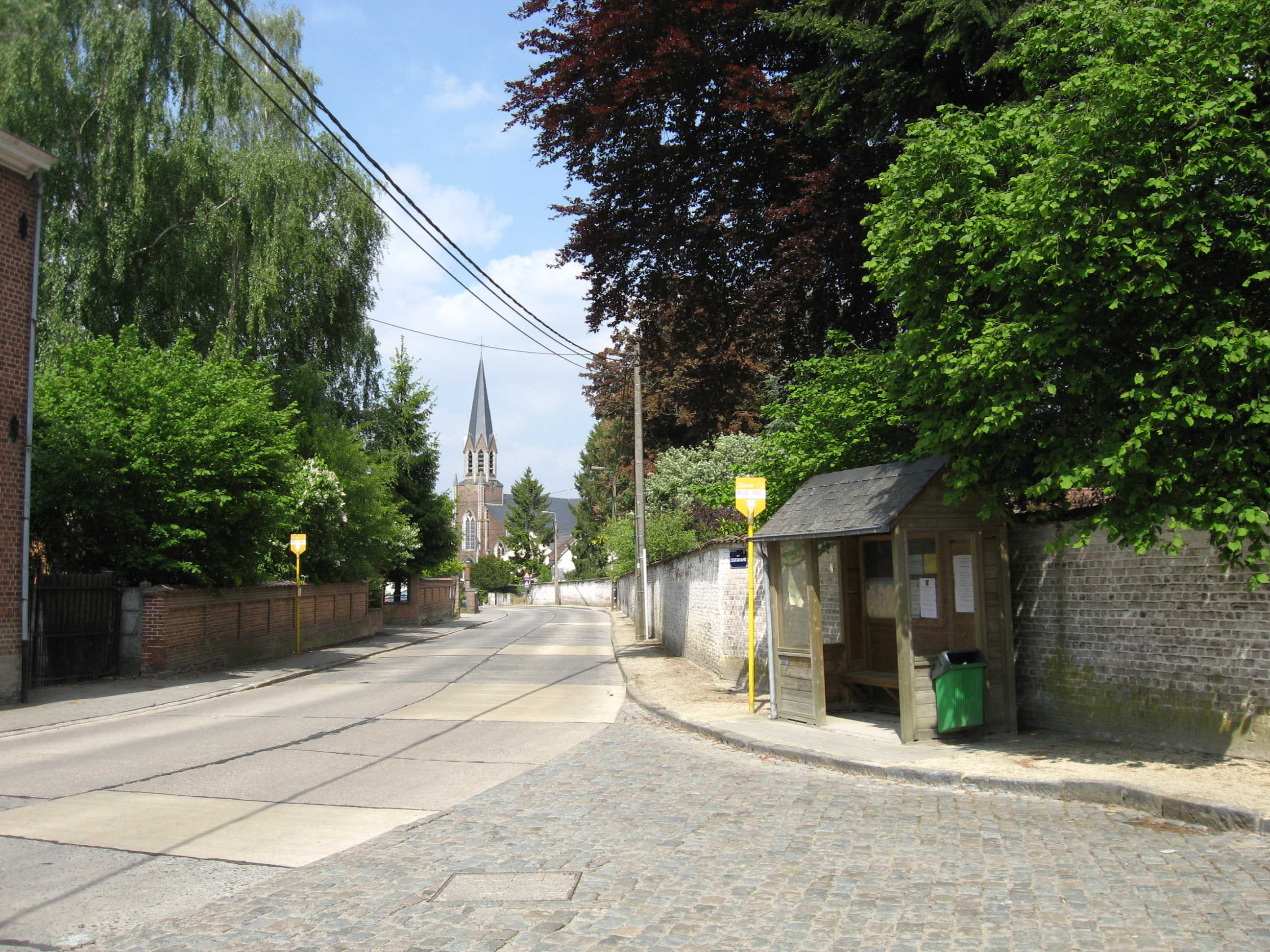 Beauvechain streetview with a TEC line 18 busstop.